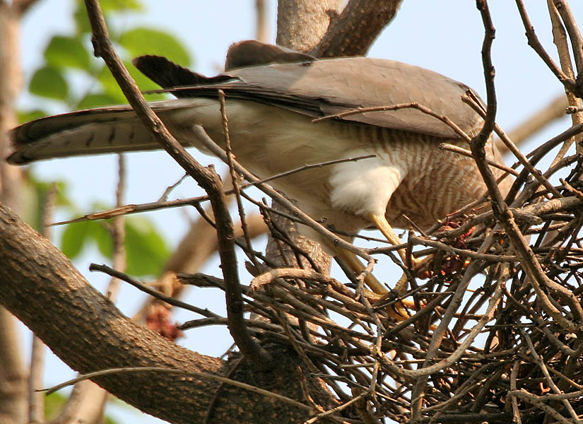 Shikra Accipiter badius in Hyderabad, India.